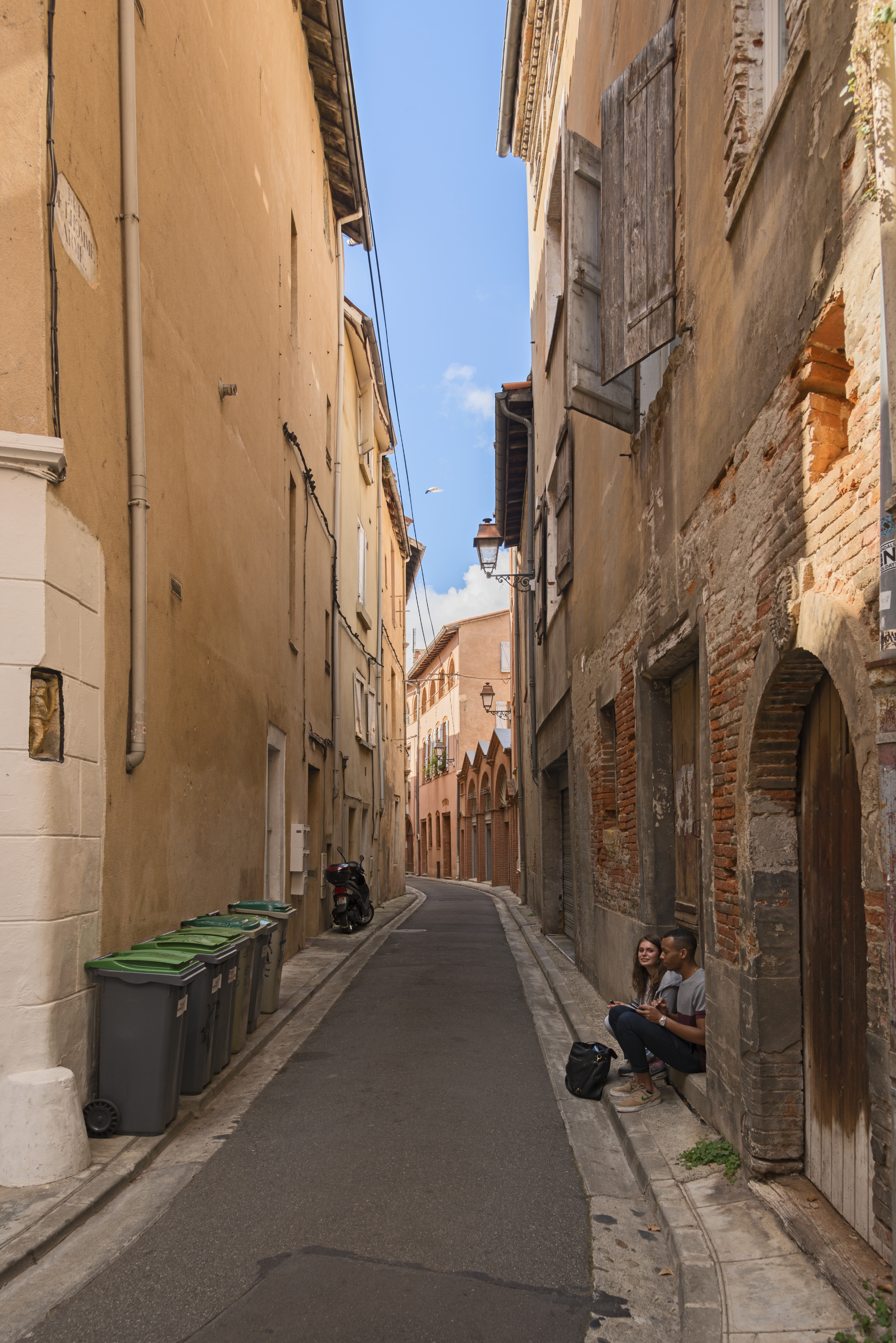 End of the rue de l'Homme armé in Toulouse. On the left side: the statuette of "wild" also known as the armed man, which given the name to the street.